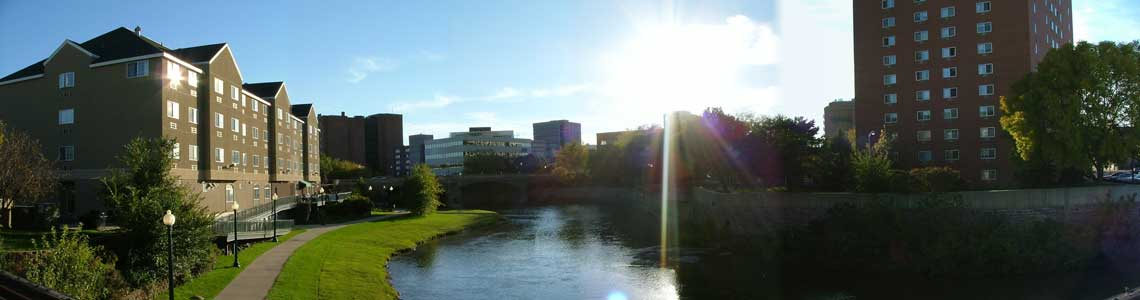 Shot by Jerry Fisher on 13 October, 2005 in downtown Sioux Falls, South Dakota.